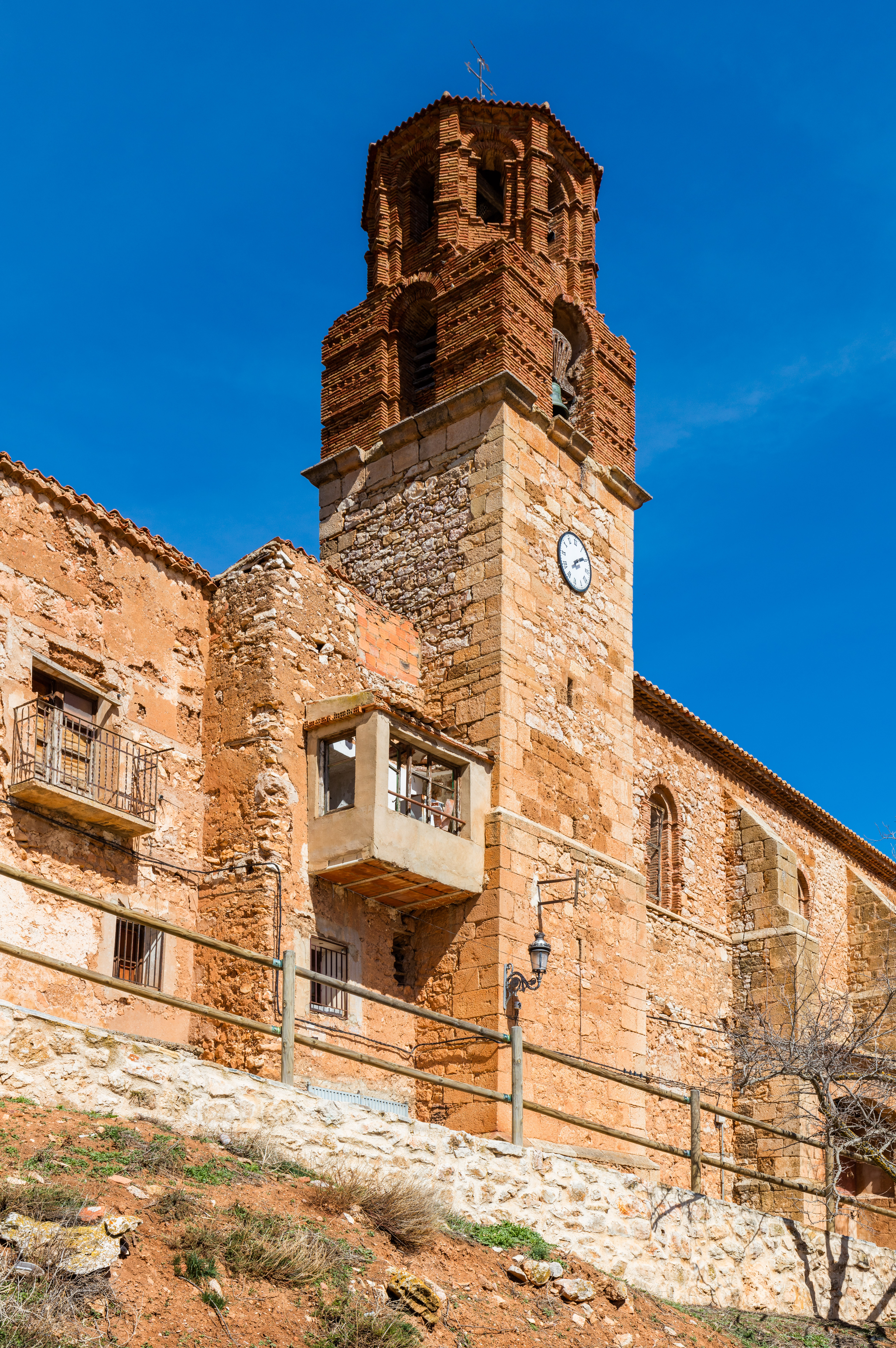 Church of St John the Baptist, Campillo de Aragón, Zaragoza, Spain